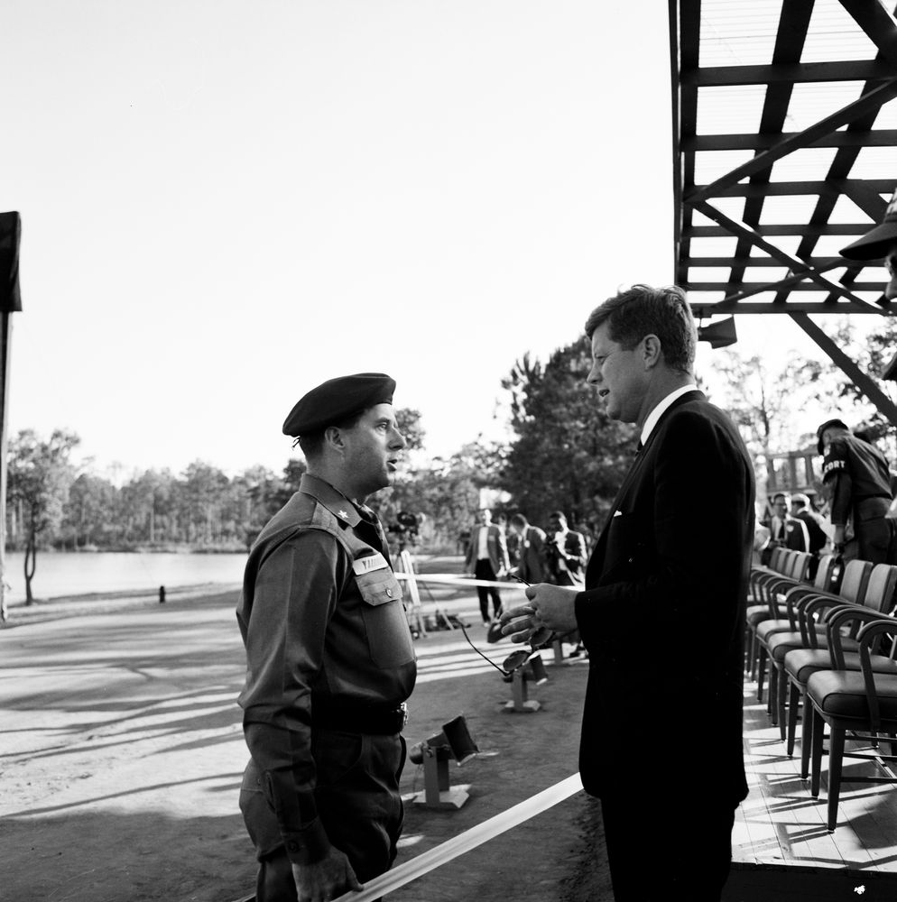 President John F. Kennedy visits 82nd Airborne Division at Fort Bragg, North Carolina. Brigadier General William P. Yarborough; President Kennedy. Pope Air Force Base, Fort Bragg, North Carolina.